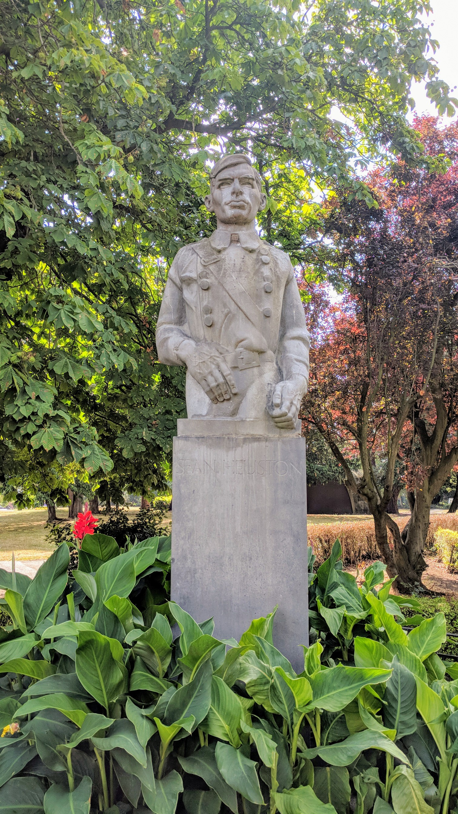 Memorial to Sean Heuston in the Phoenix Park, Dublin, Ireland.